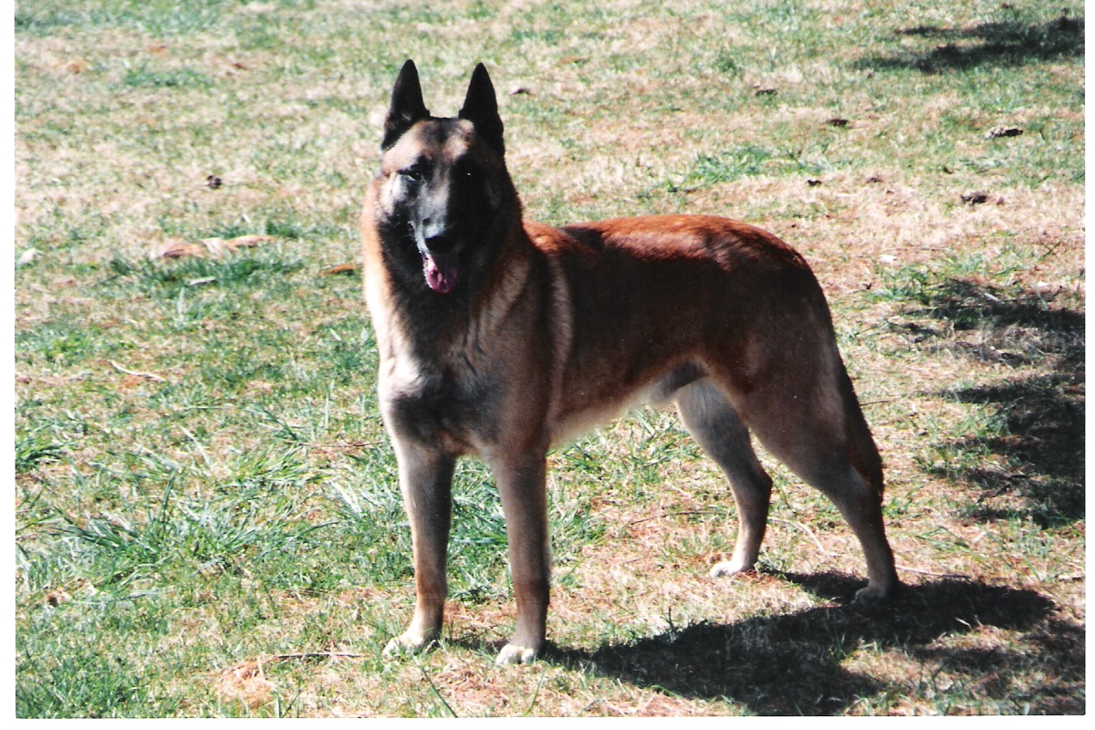 A Belgian Malinois male named Intrepid's Chase, sired by dog "Veni Van Balderlo".